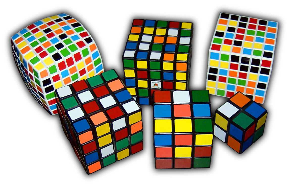 Rubik's Cube variants from 2×2×2 all the way to 7×7×7. Inspired by Rubik's cube variations.